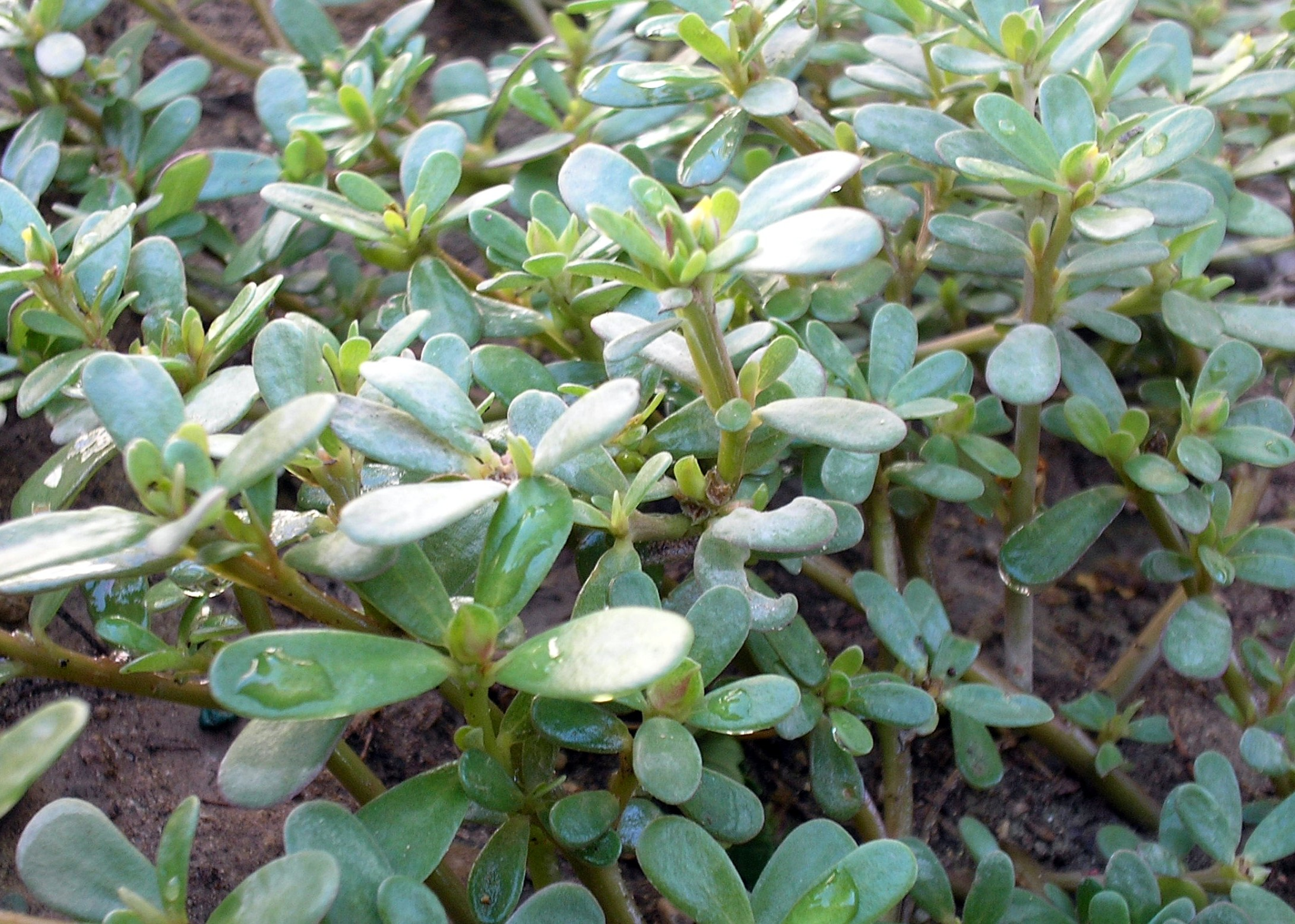 Portulaca oleracea, an edible plant grown almost any where in the United States. Blooms yellow, small flowers.